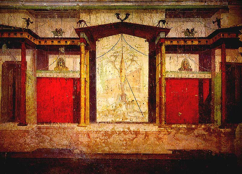 Roman fresco, House of Augustus, Palatine Hill